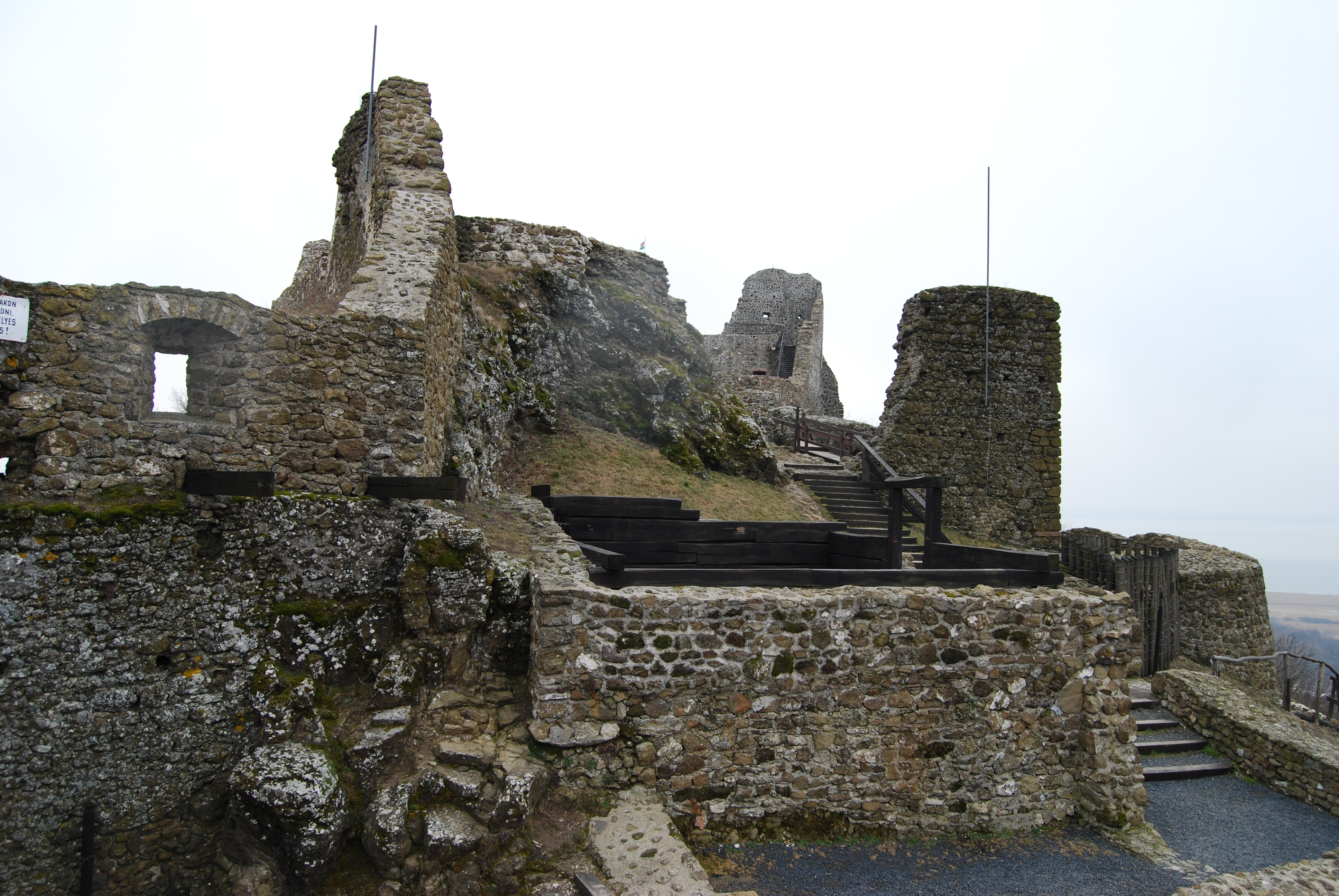 Szigliget castle near Balaton lake, Hungary.